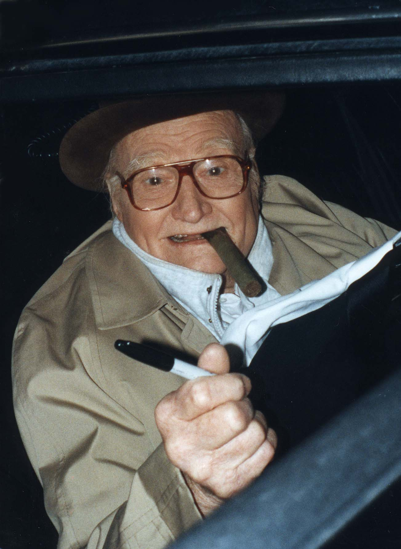 .From Baltimore M.D. Joseph Meyerhoff theater April 1994 © copyright John Mathew Smith 2001